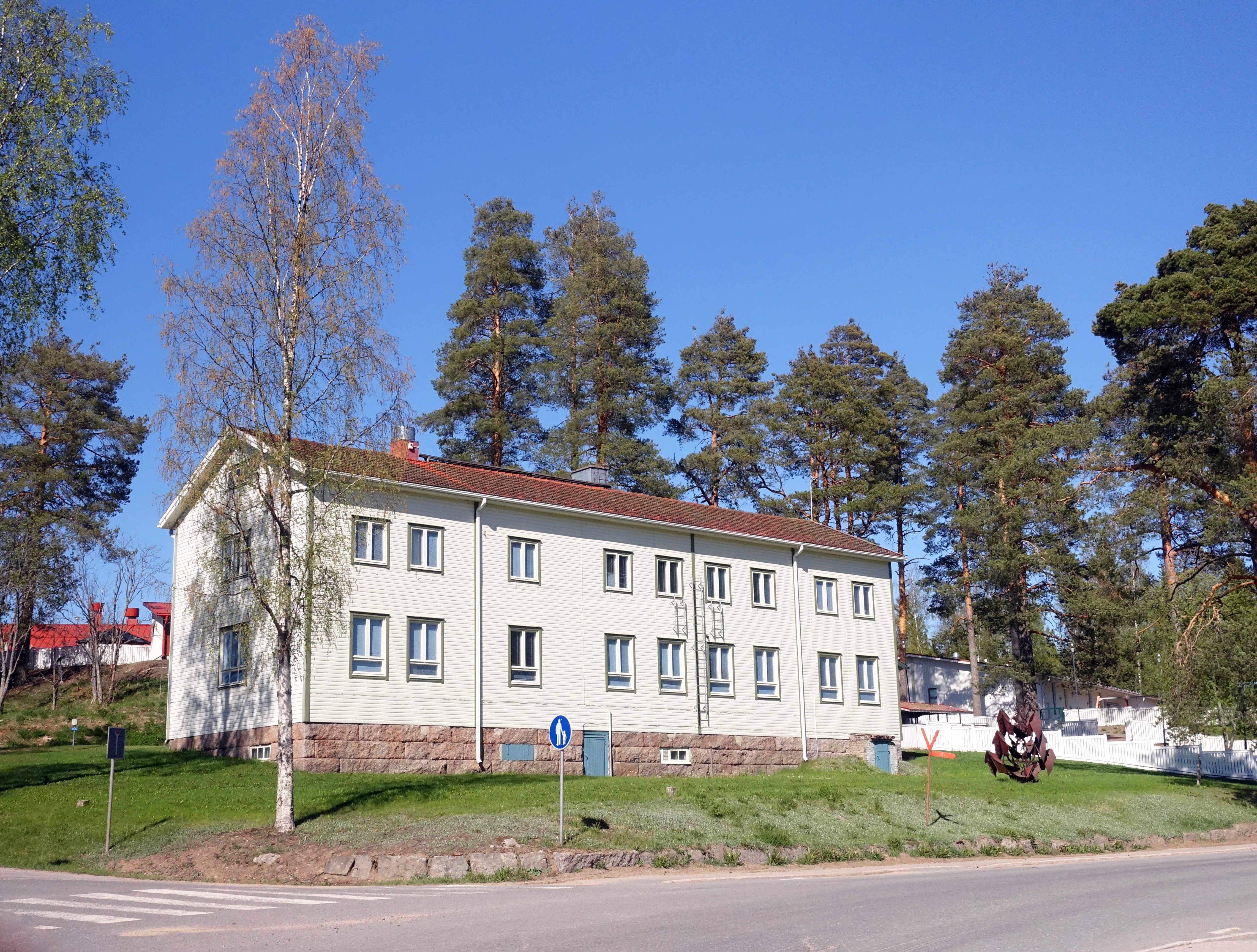 Urheilutie 2, Petäjävesi, Finland.